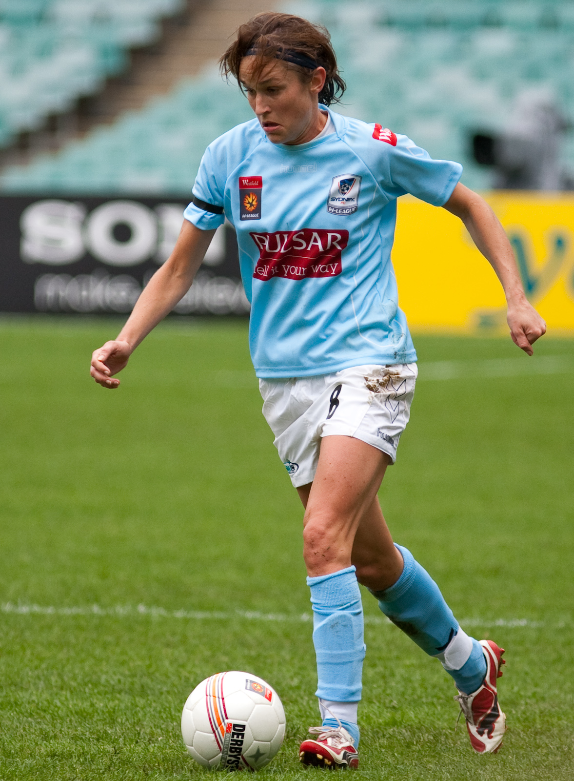 Julie Rydahl playing for Sydney FC against the Central Coast Mariners in Round 1 of the 2009 W-League.